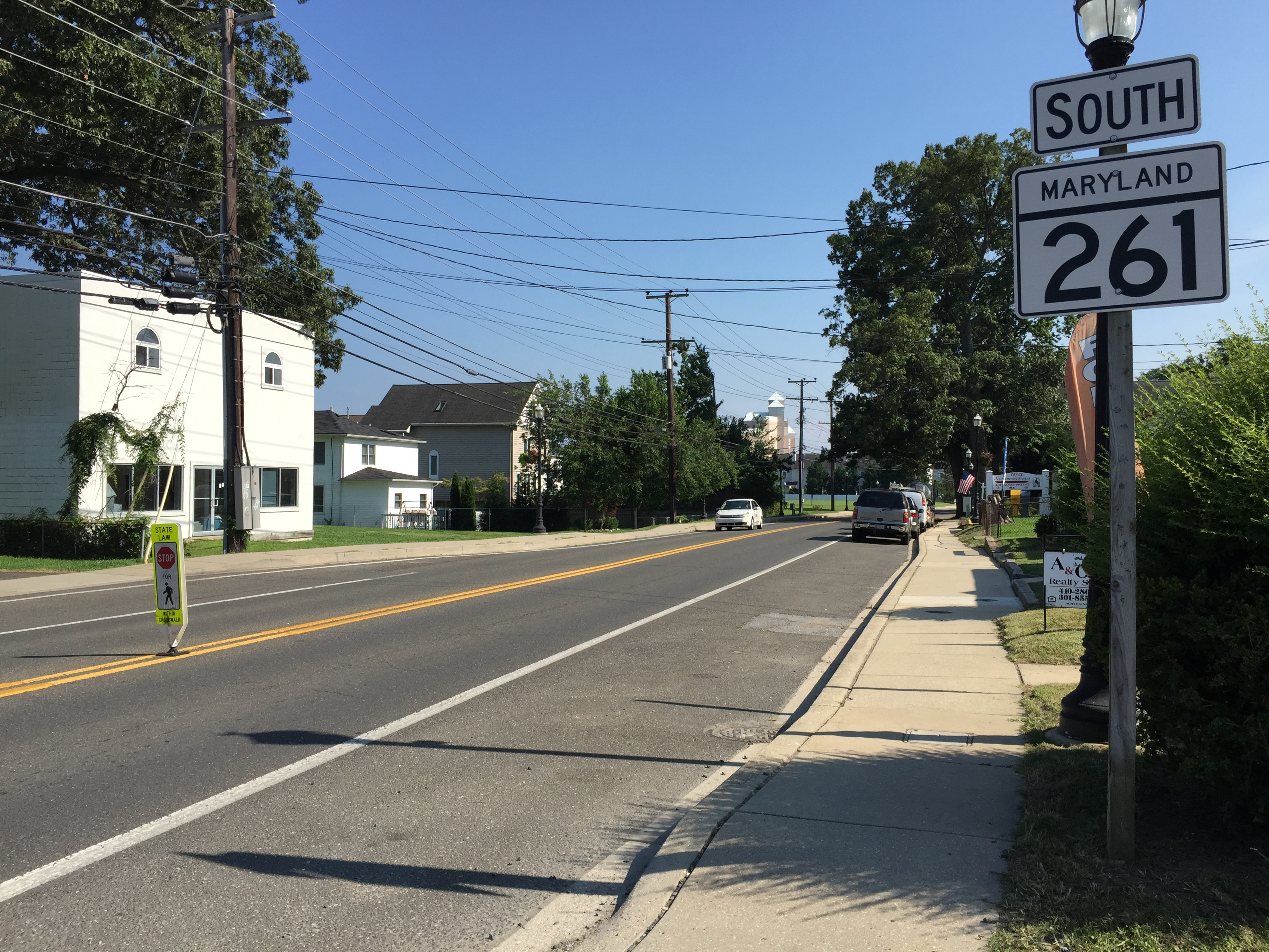 View south along Maryland State Route 261 (Chesapeake Avenue) just south of First Street in Chesapeake Beach, Calvert County, Maryland